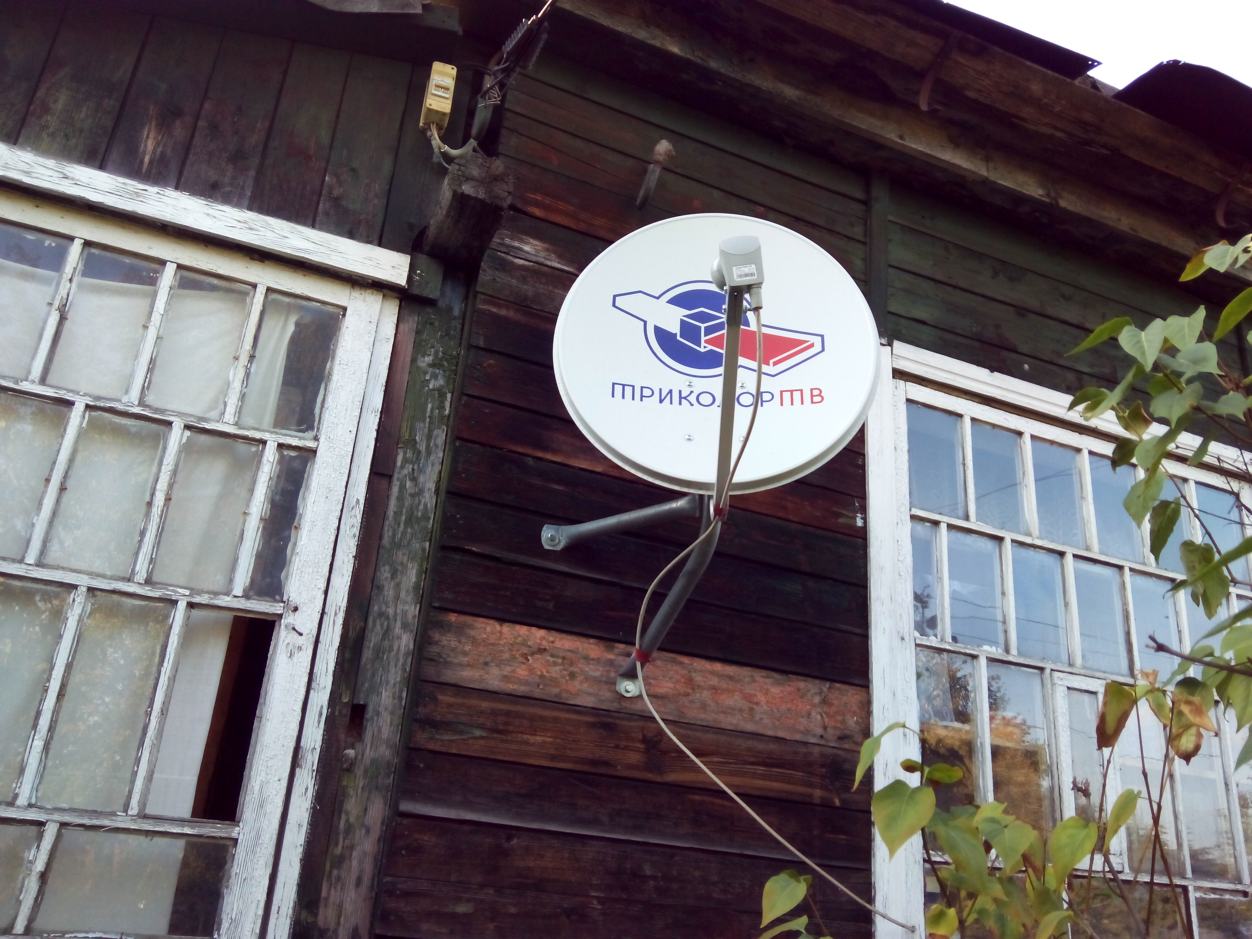 Satellite dish from "Tricolor TV"